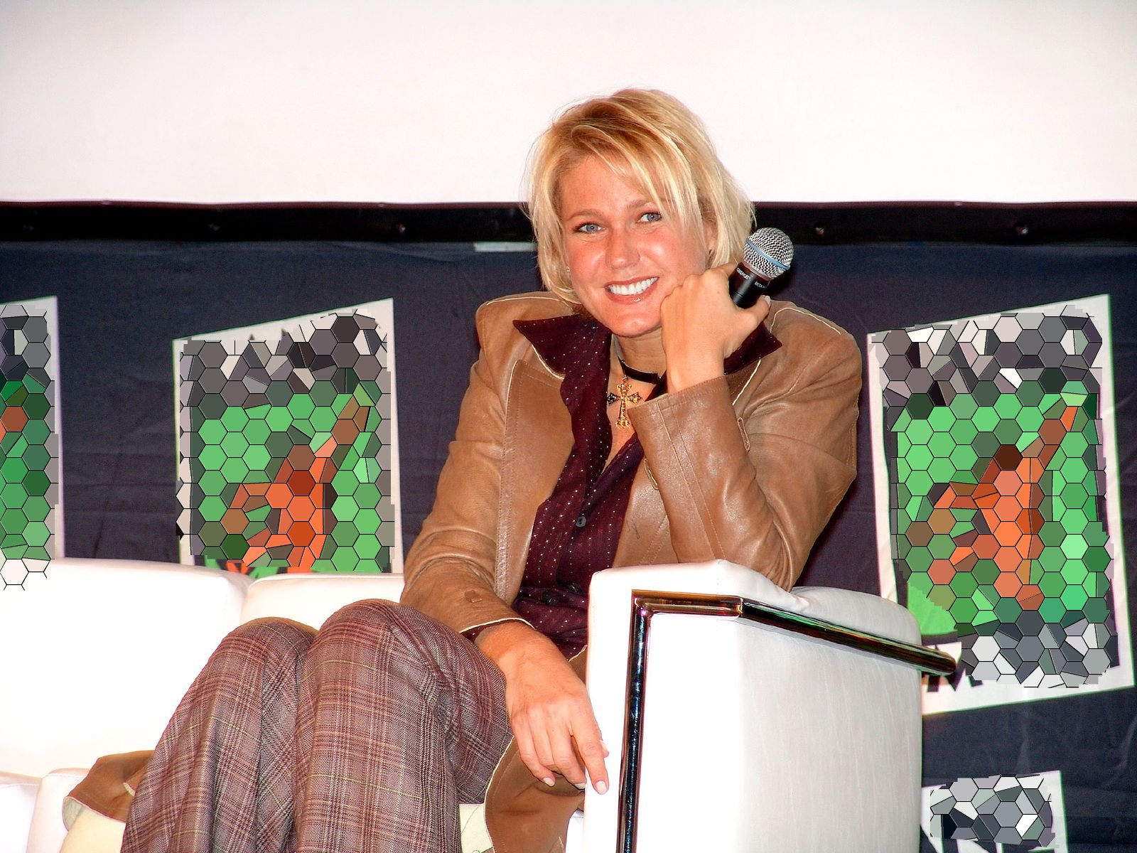 Brazillian TV celebrity Xuxa